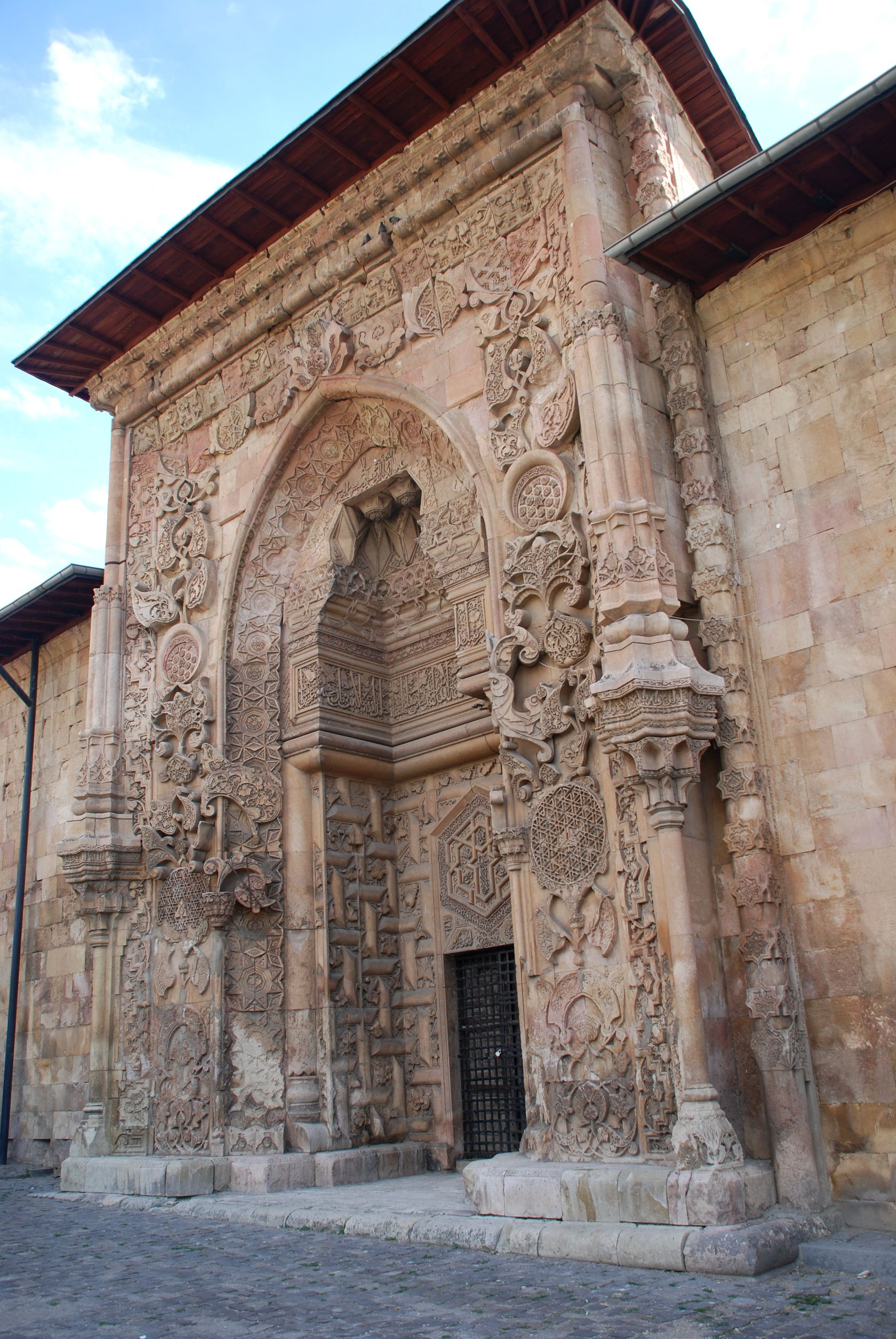 Divriği, north portal mosque